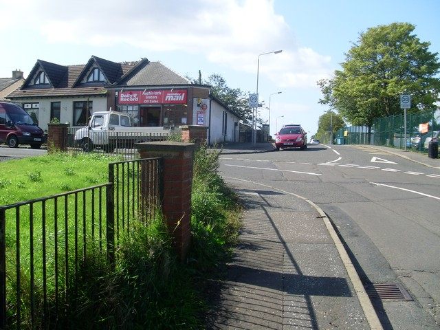 Auchinloch newsagents In the centre of the village, on Langmuirhead Road.